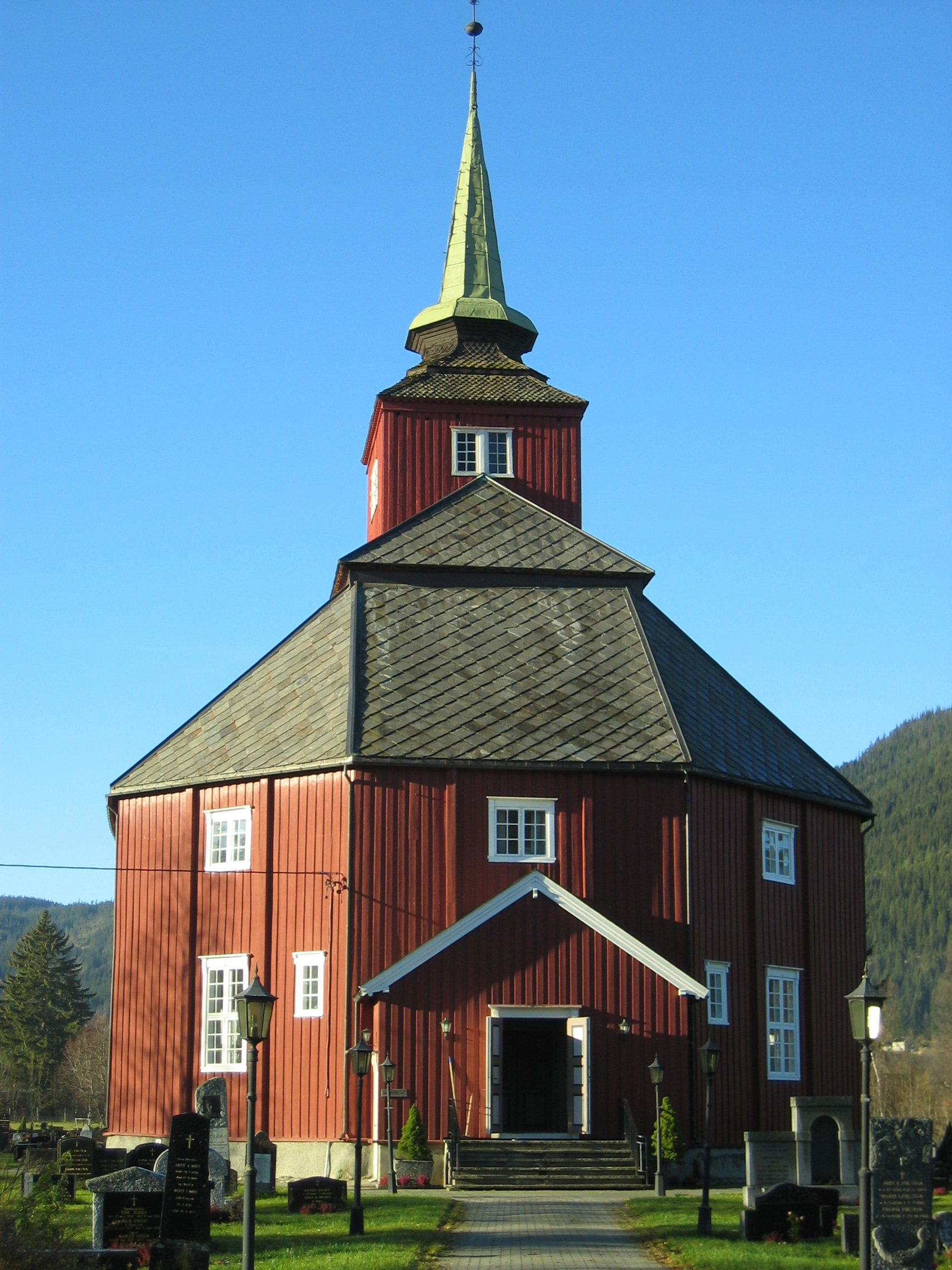 Støren Church, Midtre Gauldal, Sør-Trøndelag, Norway.